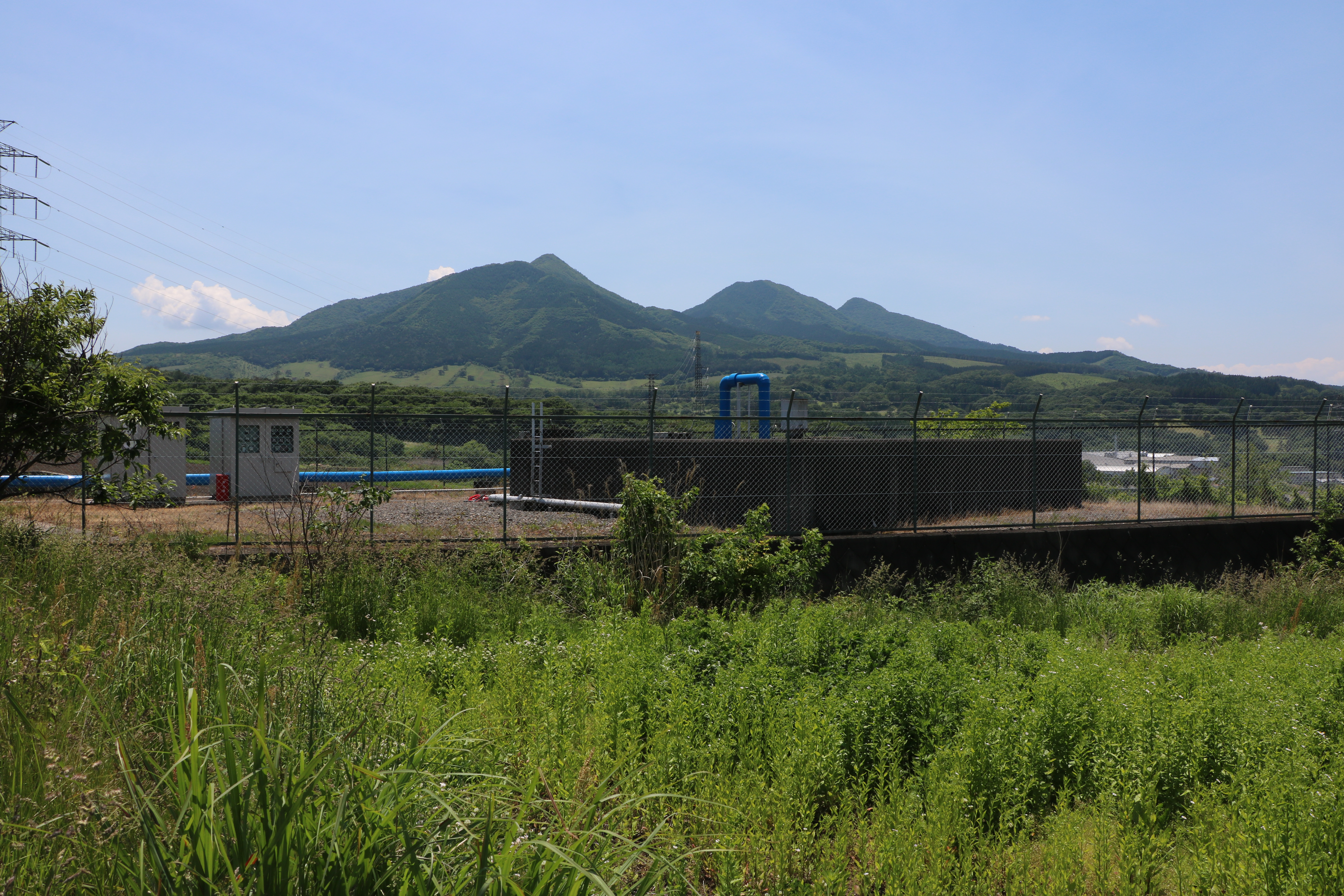 Trace of construction work for Takayama district vertical shaft construction